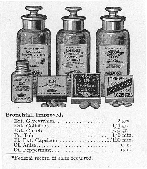 A images of Eli Lilly medicines, according to source the image is from a company sales books from c. 1908